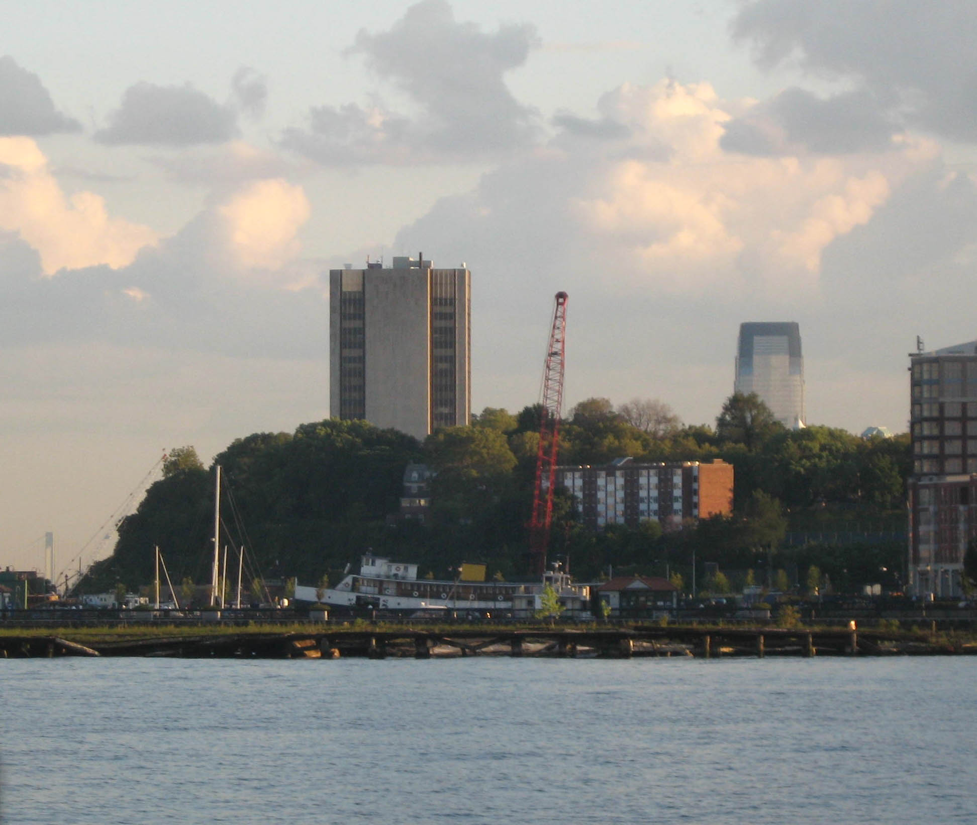 Looking south at Stevens Institute of Technology from a Weehawken ferry late in the afternoon